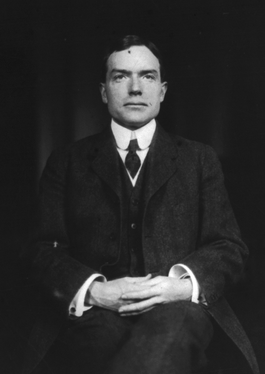 John D. Rockefeller, Jr., three-quarter length portrait, seated, facing front.